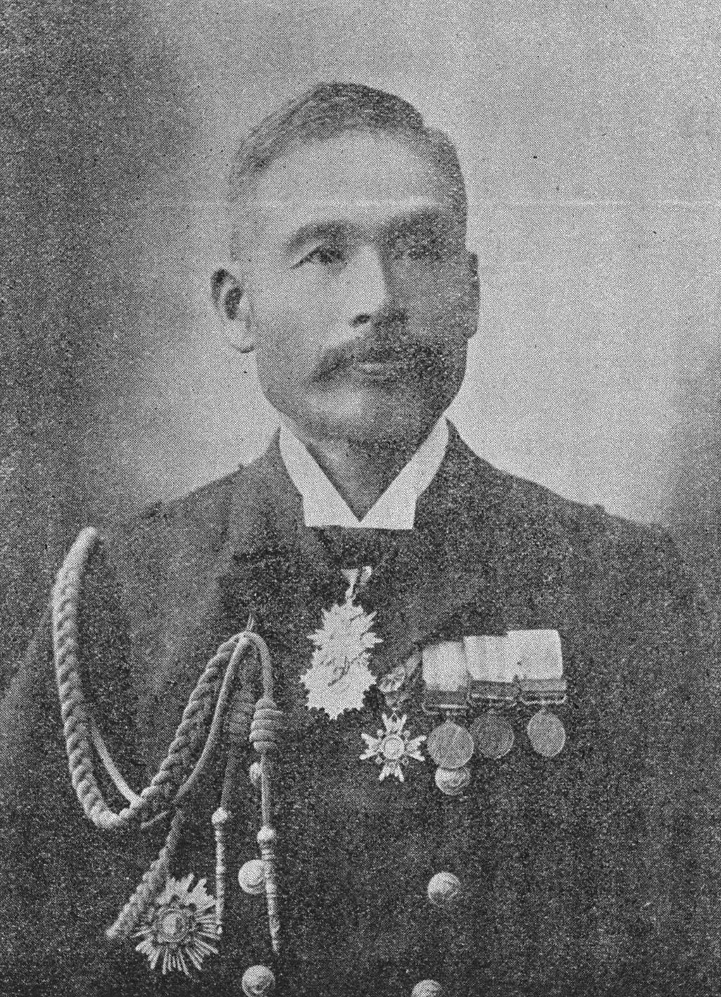 Portrait of Egashira Yasutaro (江頭安太郎, 1865 – 1913)